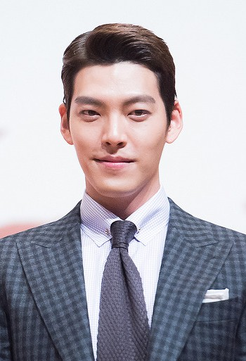 Kim Woo-bin at "Uncontrollably Fond" press conference, 4 July 2016